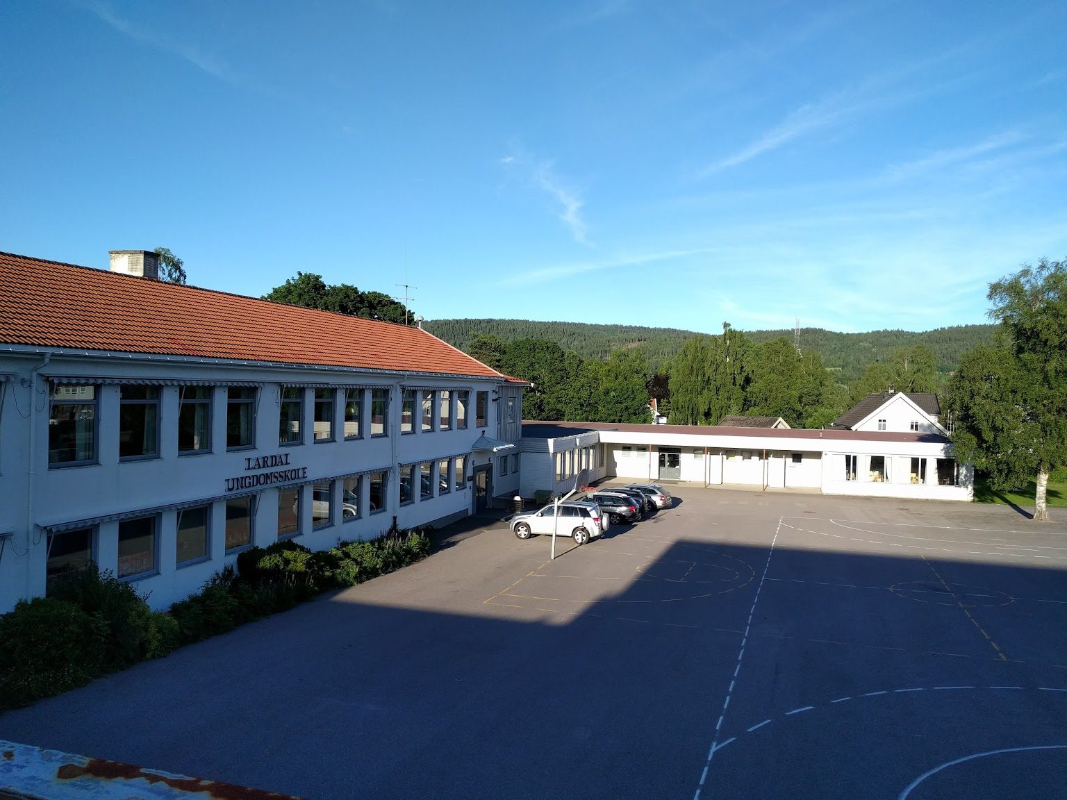 Picture of main entrances. Classrooms on the right and offices in the two-story building to the left.